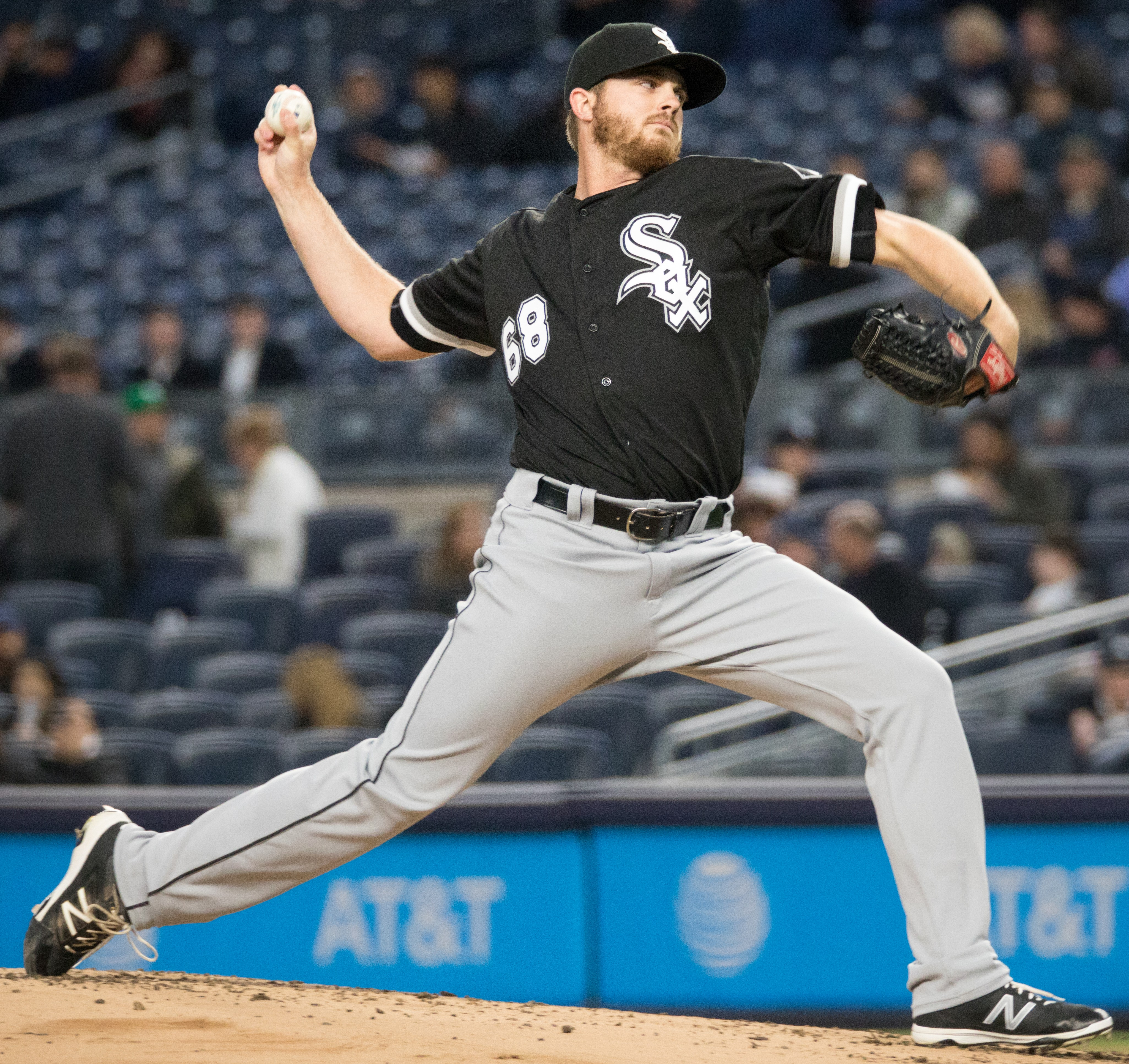 White Sox starter Dylan Covey delivers a pitch during the second inning.